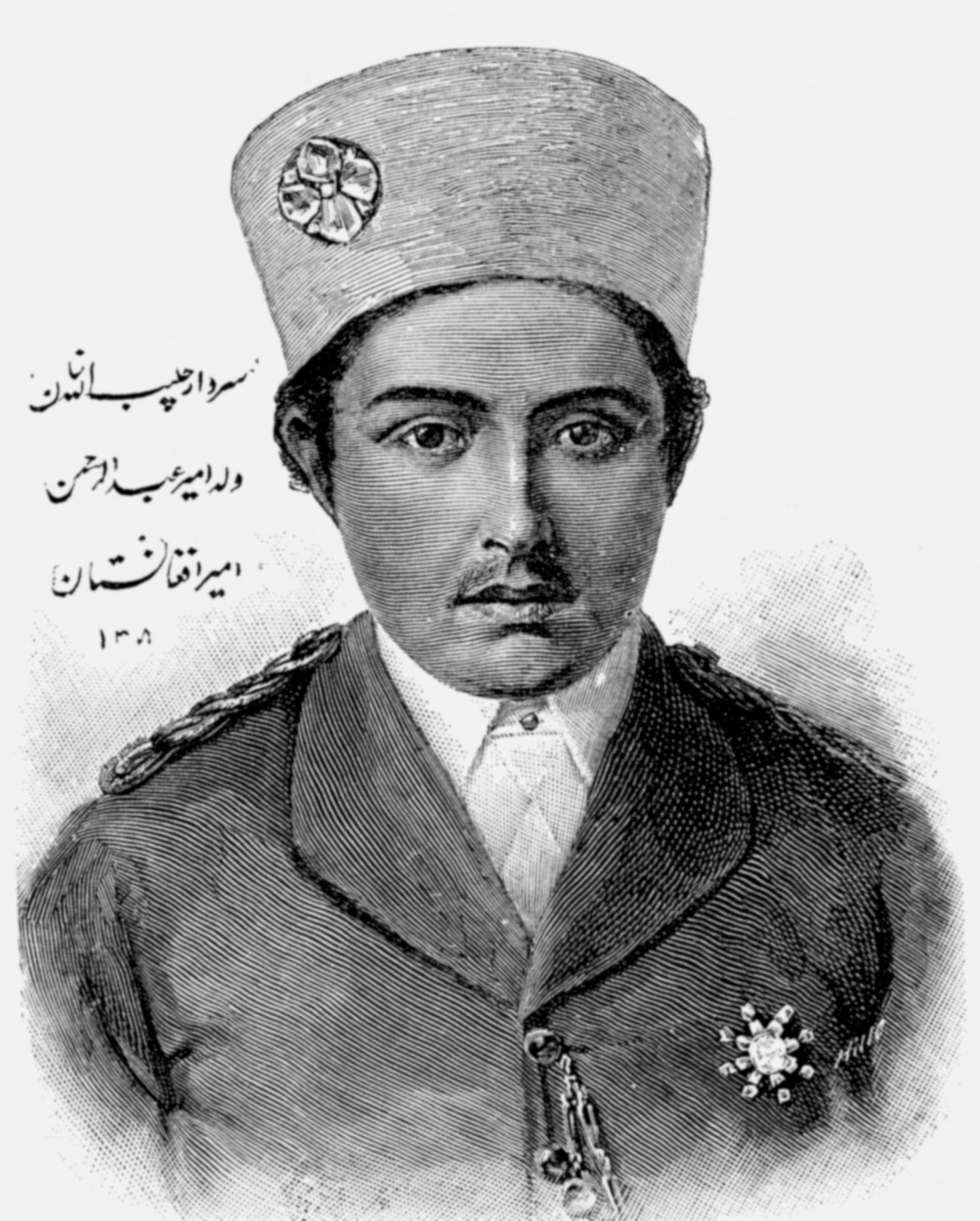 King Habibullah Khan of Afghanistan, who reigned from 1901 to until he was assassinated in 1919.